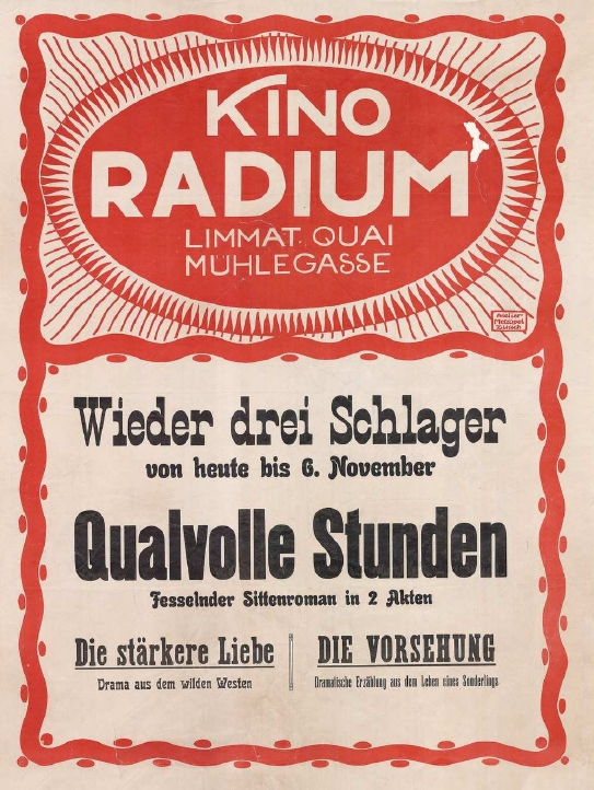 Kino Radium, Zürich, cinema poster 31st of October, 1912